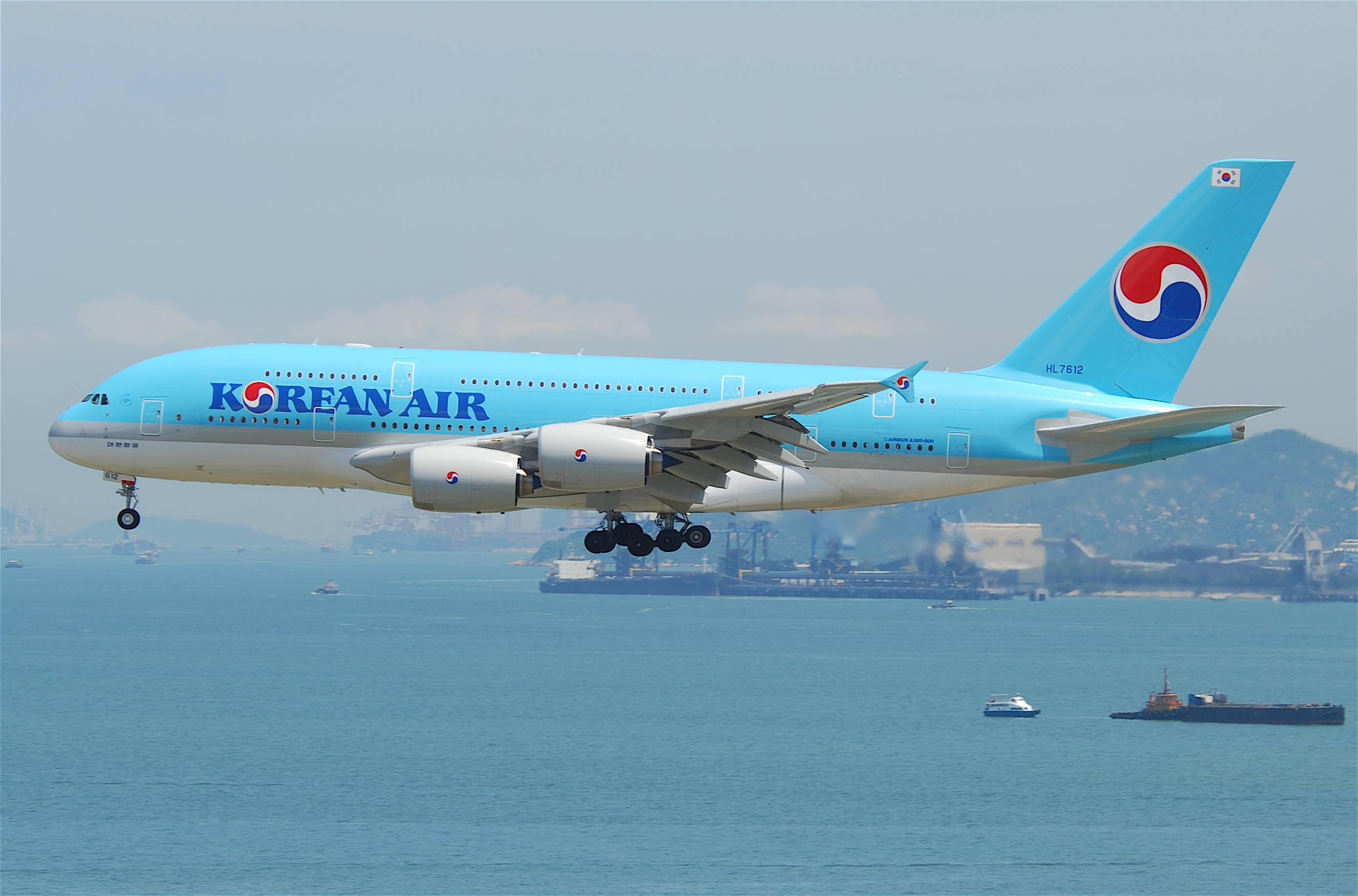 Korean Air Airbus A380-861; HL7612@HKG;04.08.2011/615dq